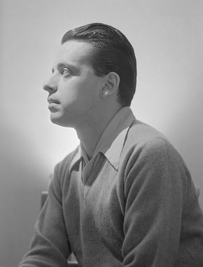 Nesuhi Ertegun. Black and white film negative. 3,25 x 4,25 inches.